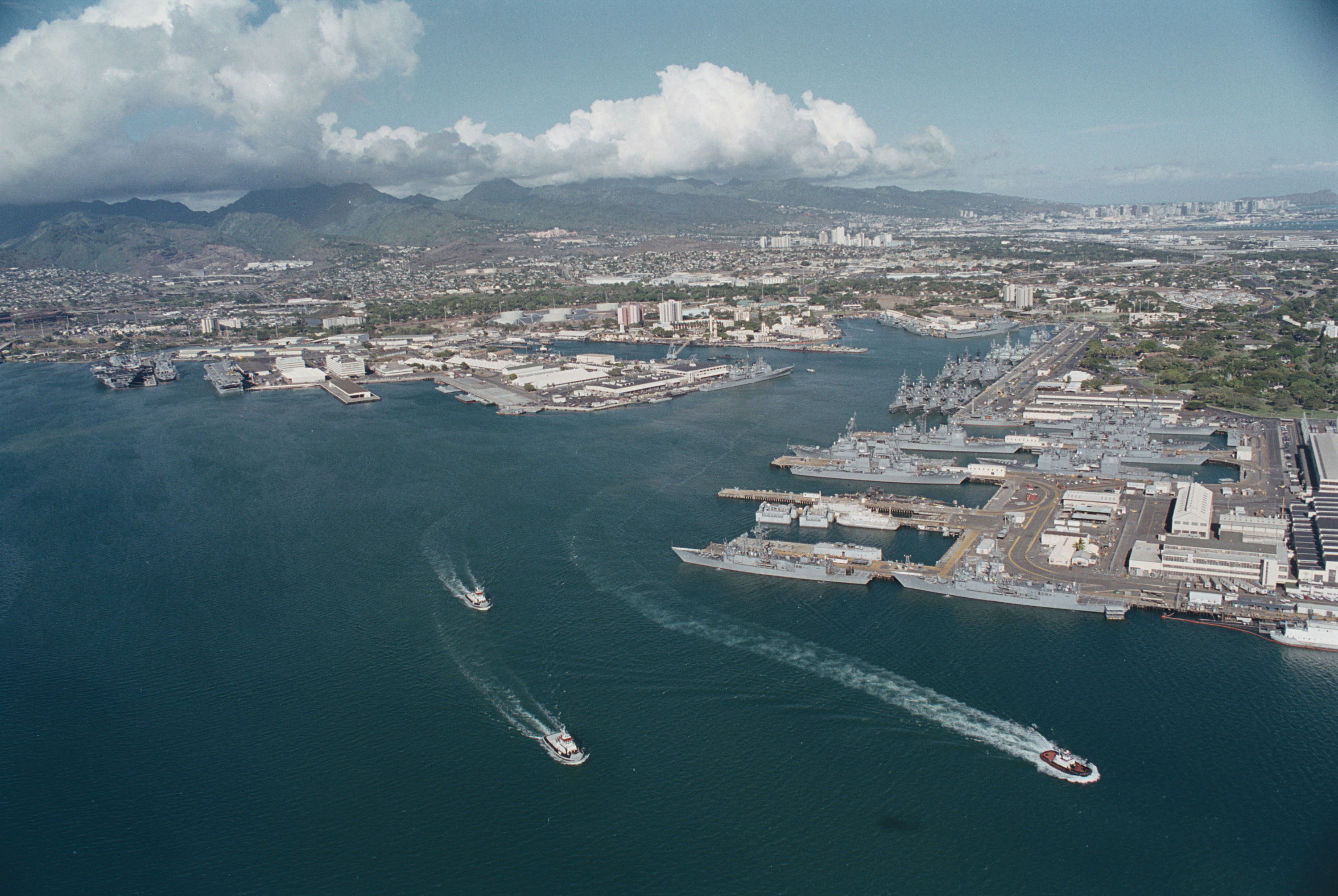 000627-N-5362A-003 Pearl Harbor, Hawaii (Jun. 27, 2000) -- An aerial view of Pearl Harbor Naval Base, Hawaii, following exercises in support of RIMPAC 2000. U.S. Navy photo by Photographer's Mate 2nd Class Arlo Abrahamson. (RELEASED)